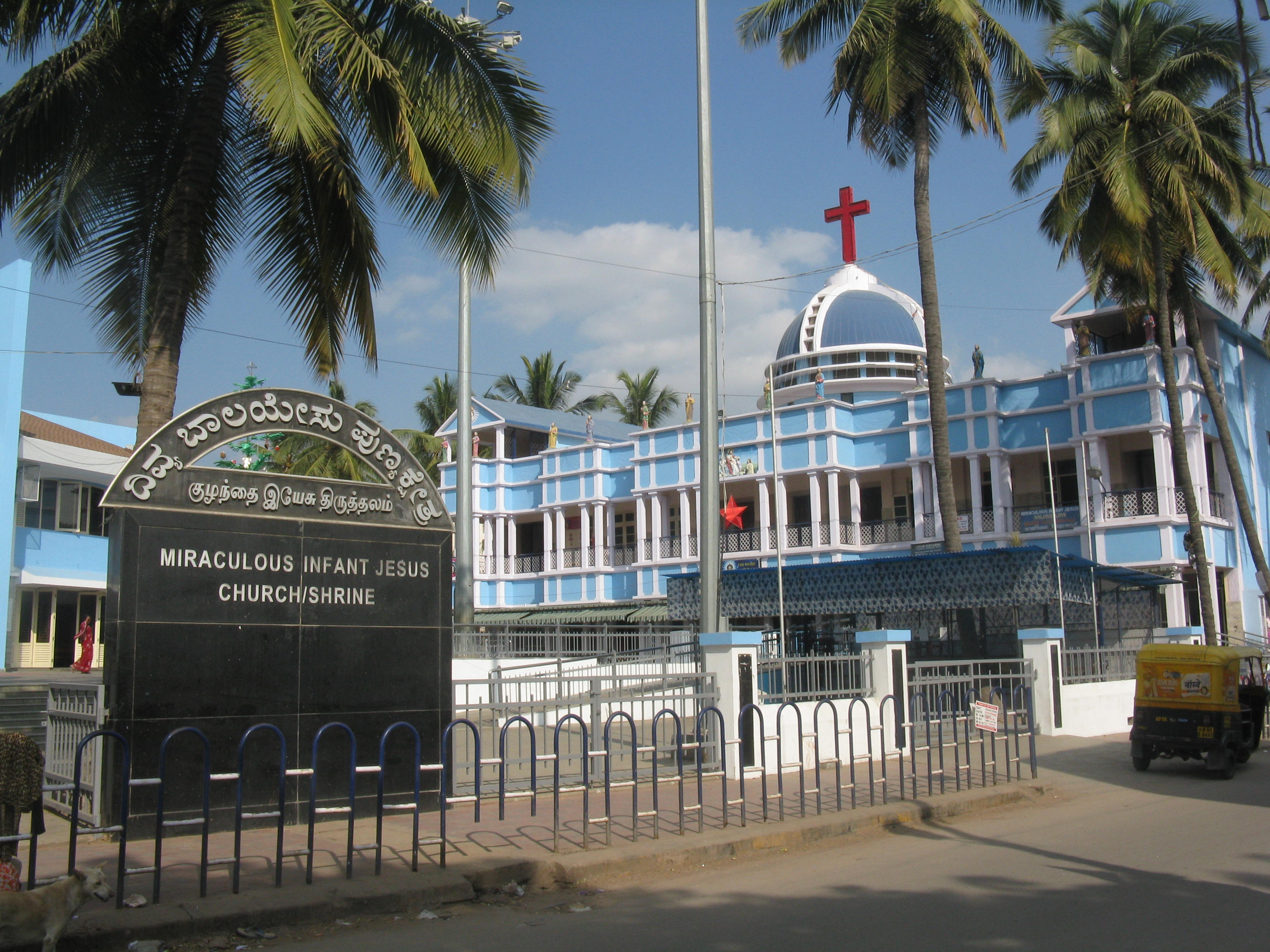 Infant Jesus Shrine,Vivek Nagar,Bangalore India